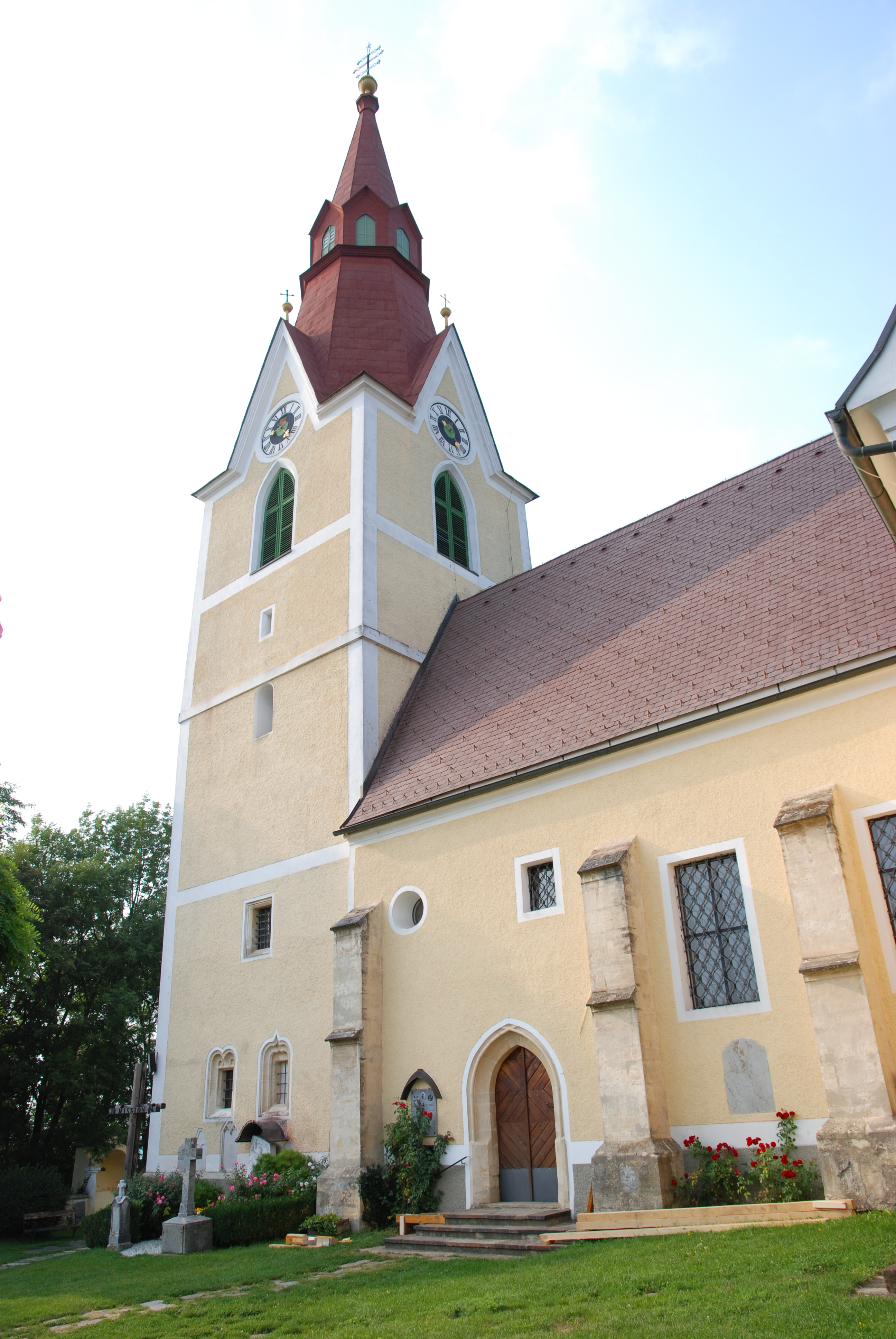 Kirche Jagerberg